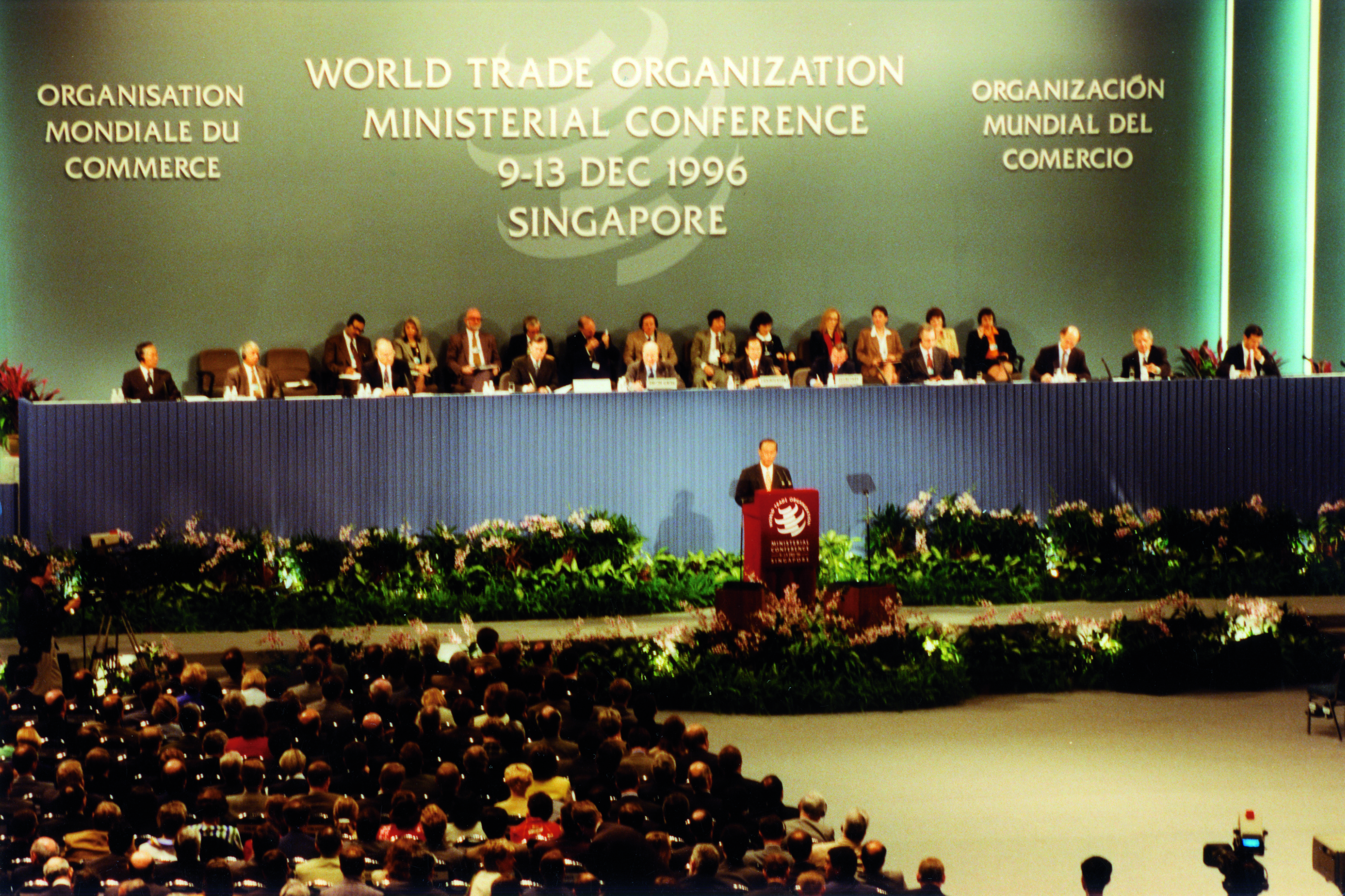 These photos may be reproduced provided attribution is given to the WTO and the WTO is informed. Photos: © WTO